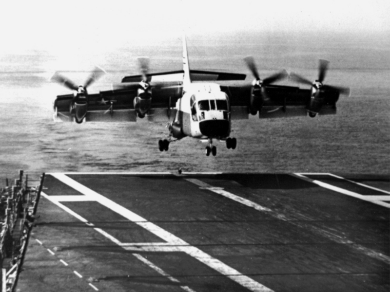 A Ling-Temco-Vought XC-124A landing aboard the U.S. Navy aircraft carrier USS Bennington (CVS-20) off San Diego, California (USA), on 18 May 1966.